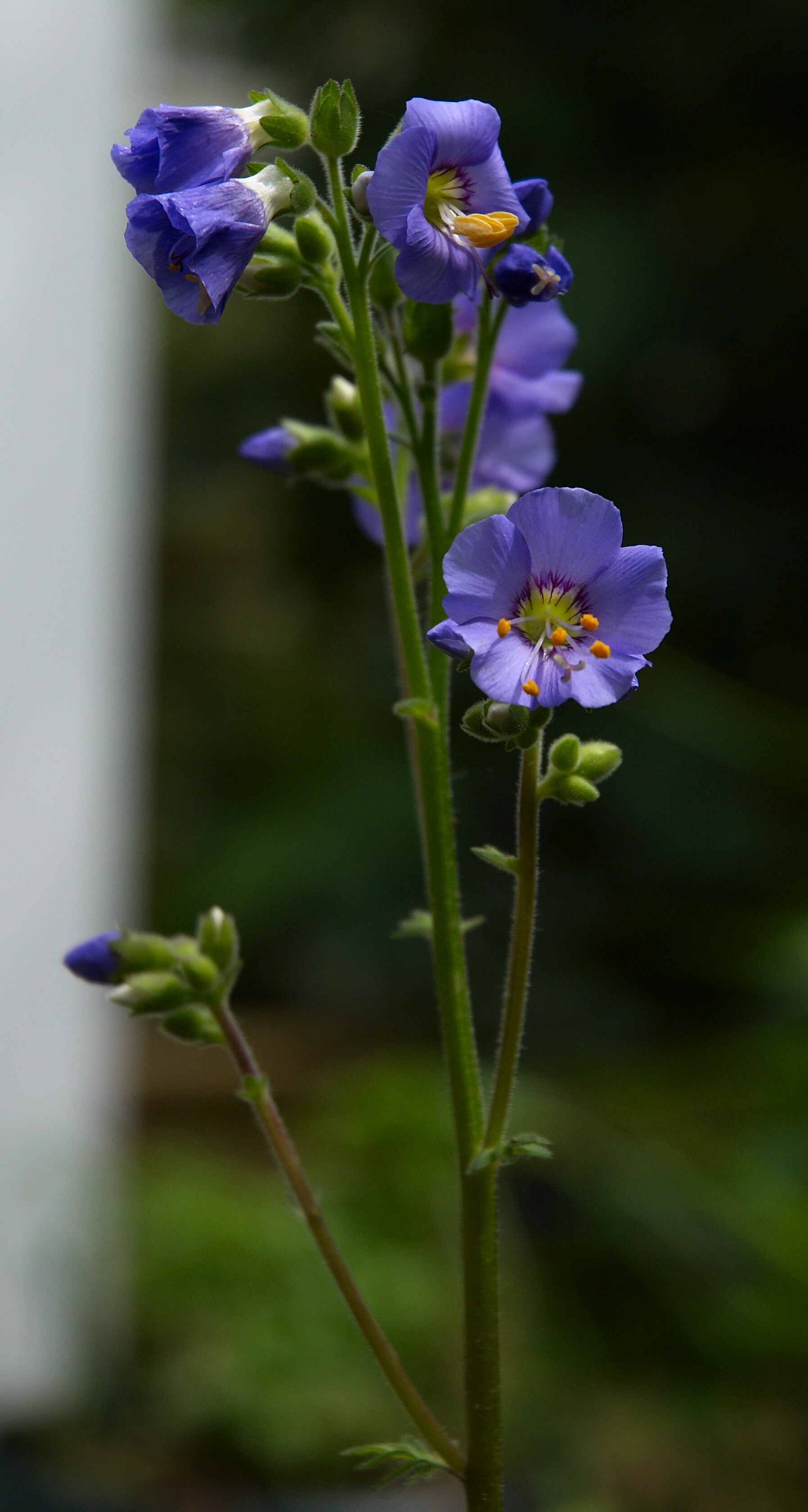 Jacob's Ladder or Greek valerian